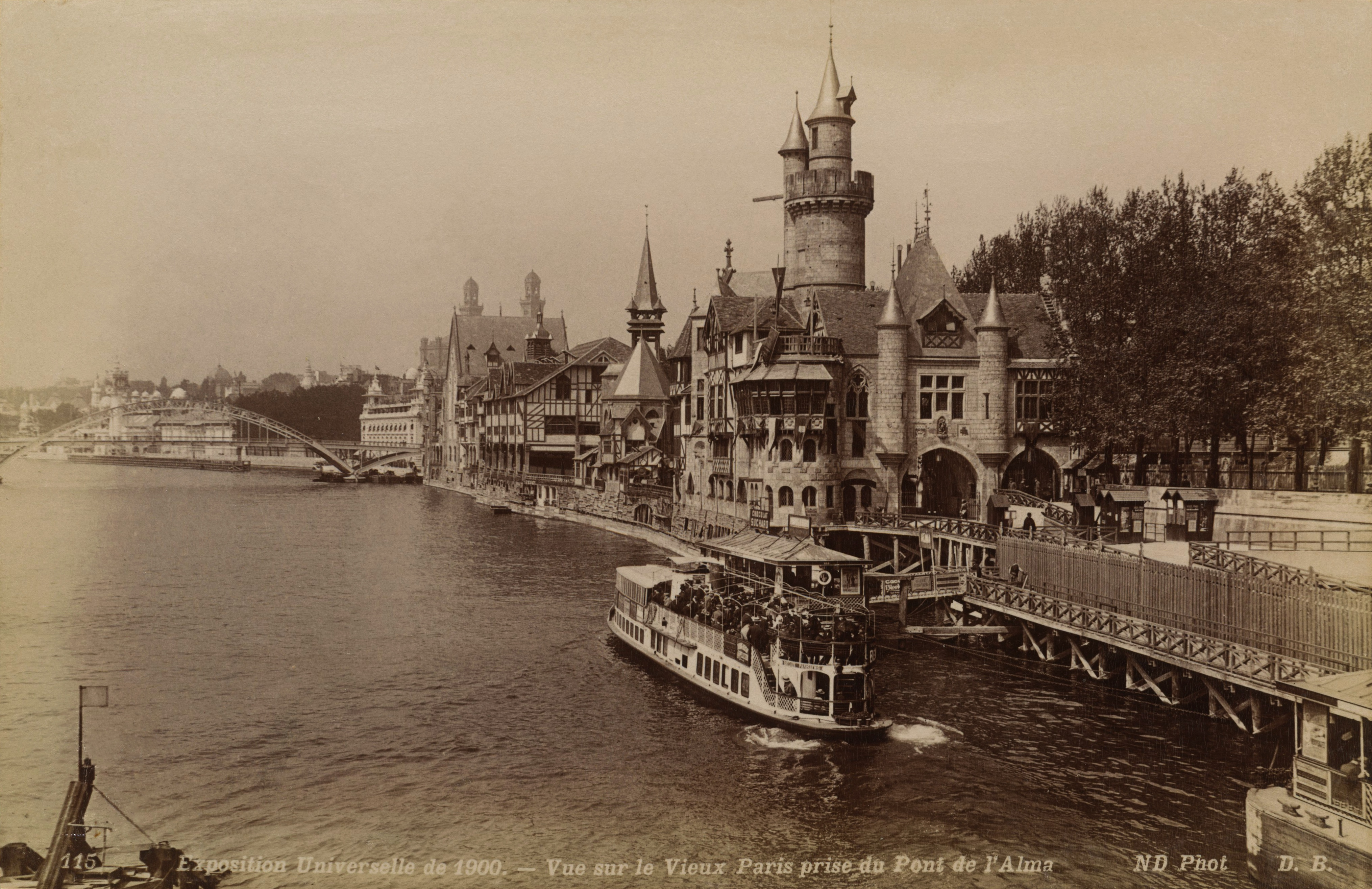 View of the Seine river during the 1900 Paris World Fair. On the right side of the photograph one can see the right bank of the Seine River, where the "Vieux Paris" was located. The "Vieux Paris" was a selection of temporary buildings erected for the occasion and designed to give the visitor an idea of what the city would have looked like in the Middle Ages.